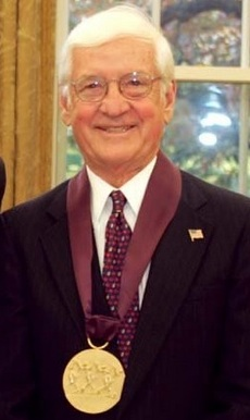 President George W. Bush and Laura Bush present the National Medal of Arts award to John Ruthven. White House photo by Susan Sterner.